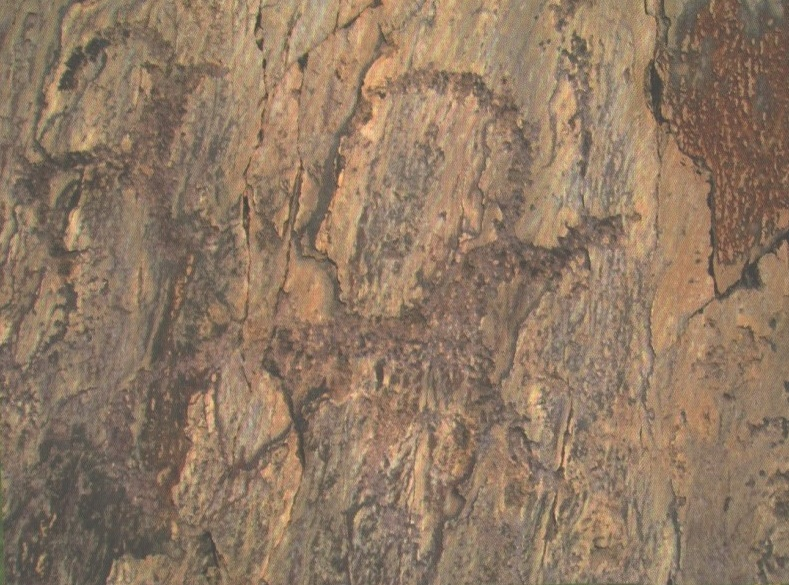 Mugur-Sargol